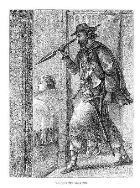 Thorgrim's Slaying, from Gísla saga (1866 English translation by George W. DaSent)